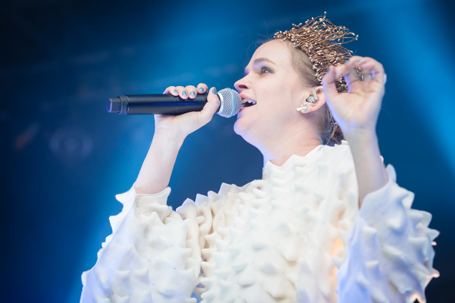 Gunnhild Sundli in a concert with Gåte at the DnB-stage at Grefsenkollen. The concert was part of Over Oslo and took place on 20. June 2018 in Oslo. Lineup:Gunnhild Sundli (vocal)Sveinung Sundli (fiddle)Jon Even Schärer (drums)Magnus Børmark (guitar)Mats Paulsen (bass guitar)